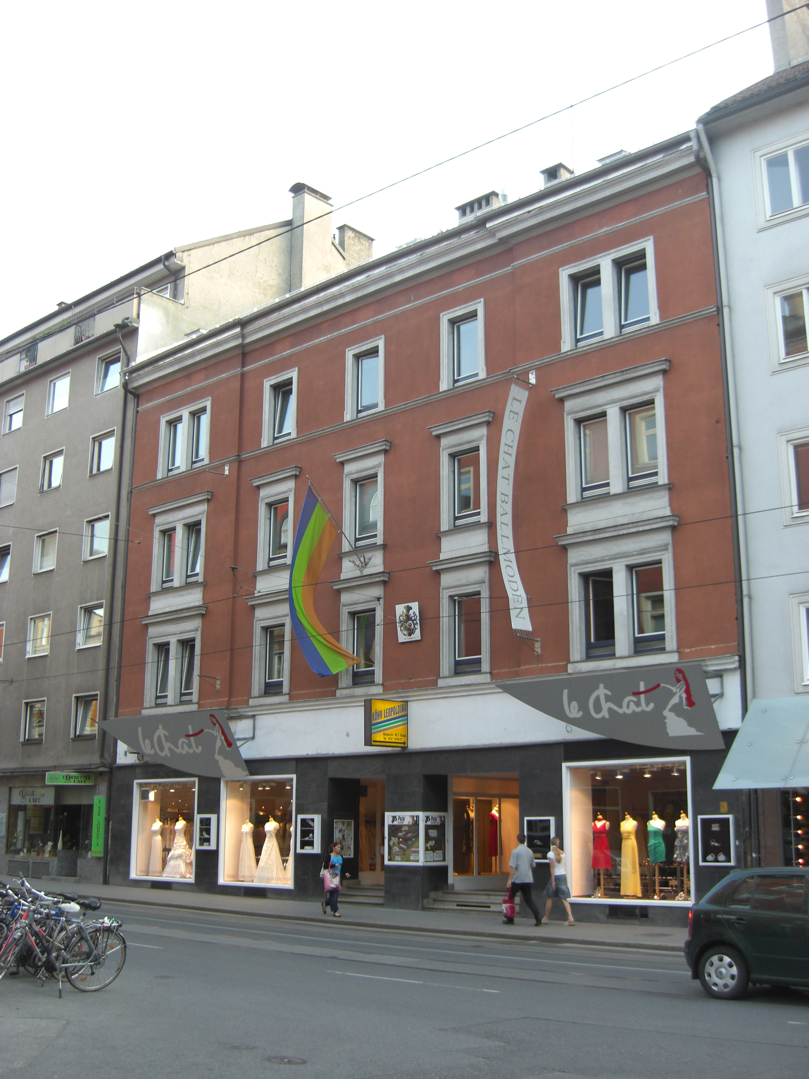 House of the K.Ö.H.V. Leopoldina